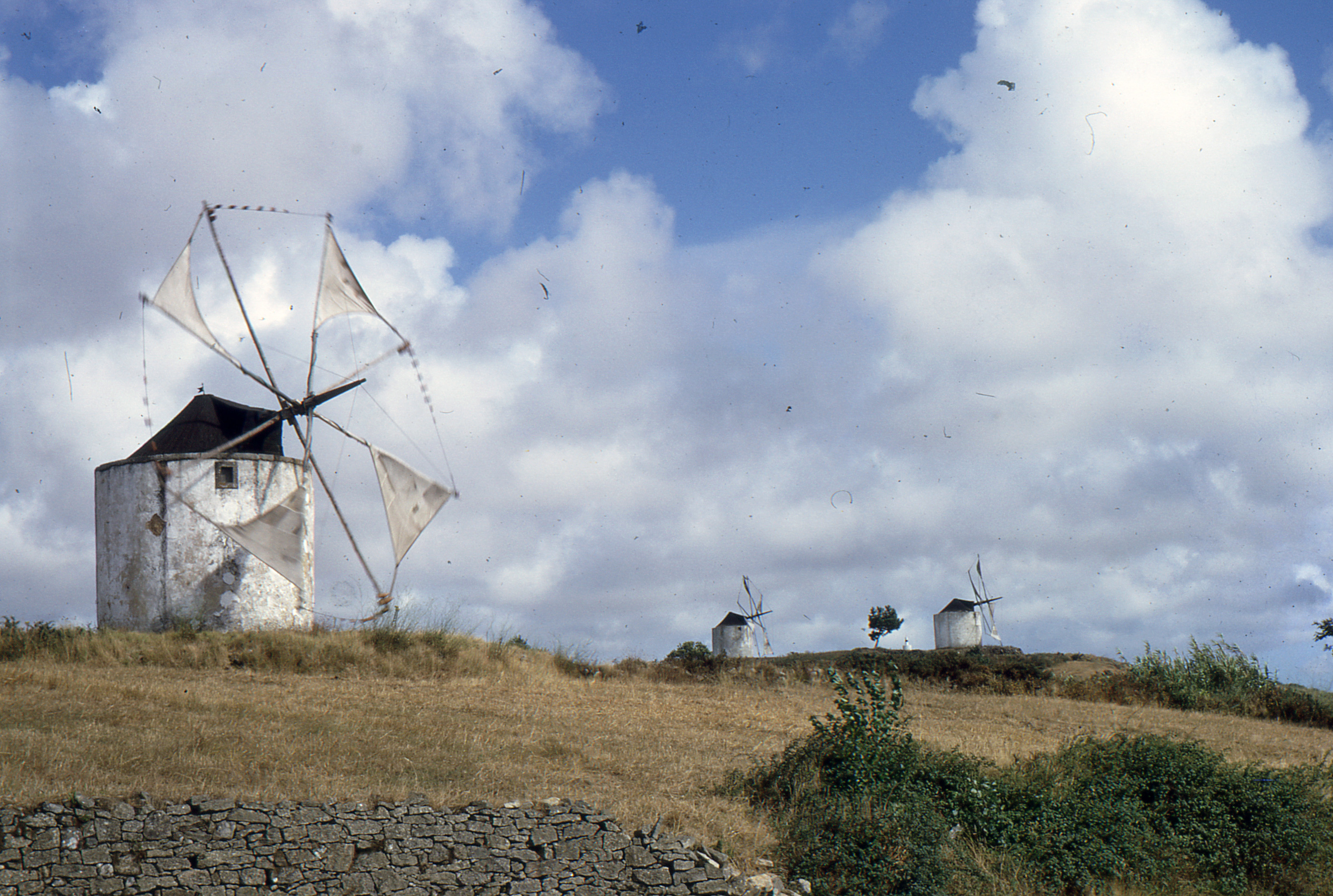 Windmills along the road from Óbidos to Mafra ..